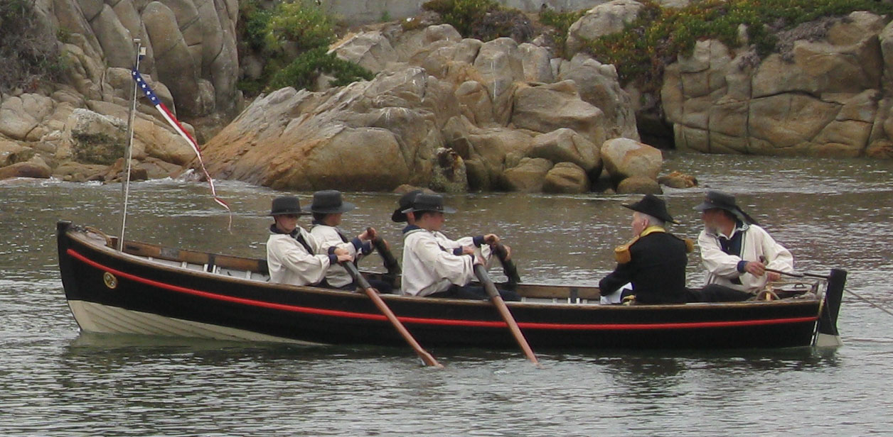 four-oared Captain's gig used by Boat Base Monterey during Sloat Landing ceremony, July 6th, 2013